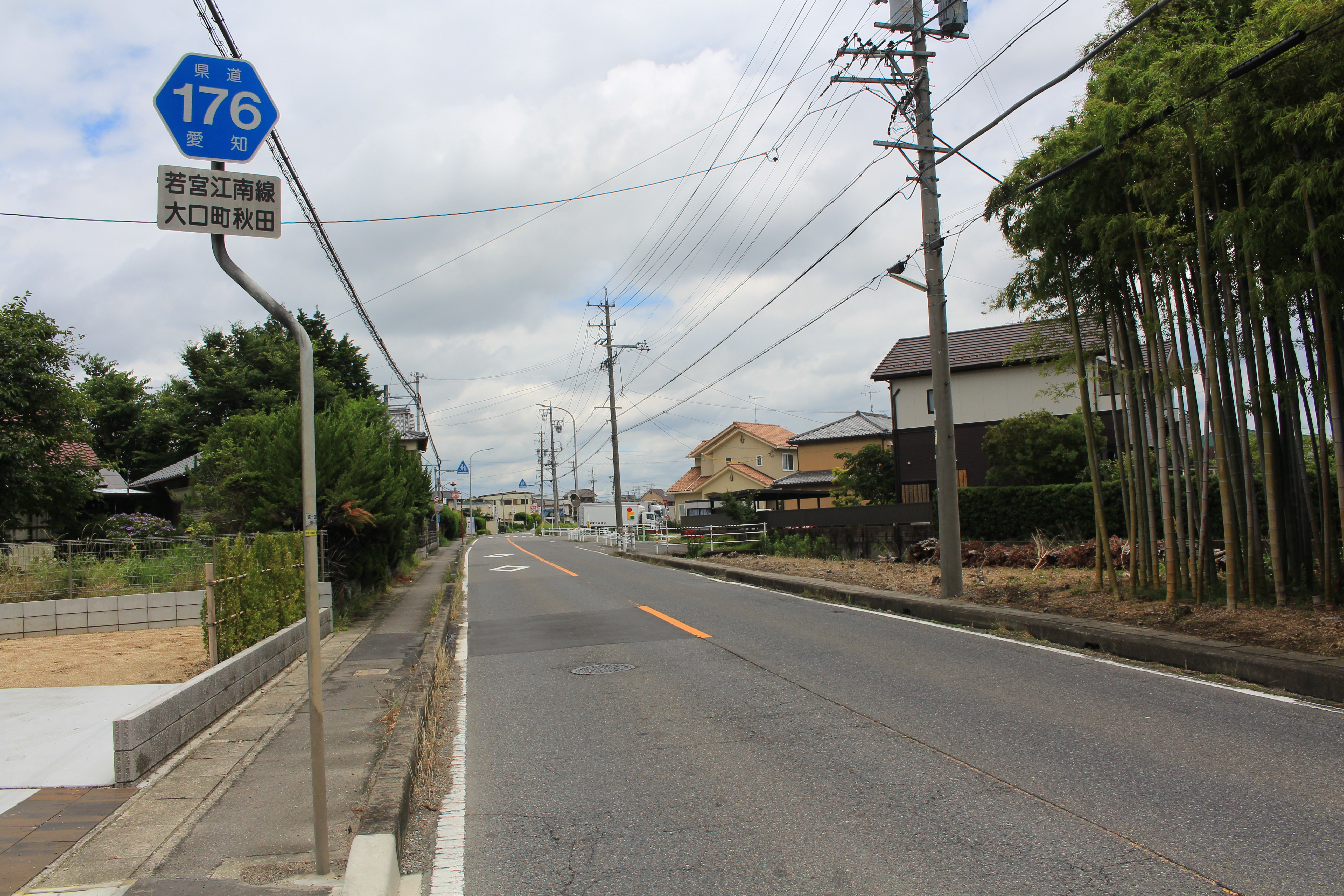 Aichi Prefectural Road Route 176 in Akita, Oguchi, Aichi prefecture, Japan.